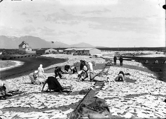 Um 1910, fiskvinnsla. Fiskvinnslufólk við saltfiskverkun á stakkstæði Th.Thorsteinssonar á Kirkjusandi. Ljósmyndari / Photographer: Magnús Ólafsson Format: Glerplata / Glass negatives, 12 x 16 cm. Höfundarréttur / Rights Info: Enginn þekktur höfundarréttur / No known restrictions on publication. Geymsla / Repository: Ljósmyndasafn Reykjavíkur / Reykjavík Museum of Photography, Tryggvagata 15, 6. Hæð / 6th floor Númer myndar / Call Number: MAÓ 3073 Myndavefur Ljósmyndasafnsins / Reykjavík Museum of Photography´s photoweb: ljosmyndasafn.reykjavik.is/fotoweb/Grid.fwx